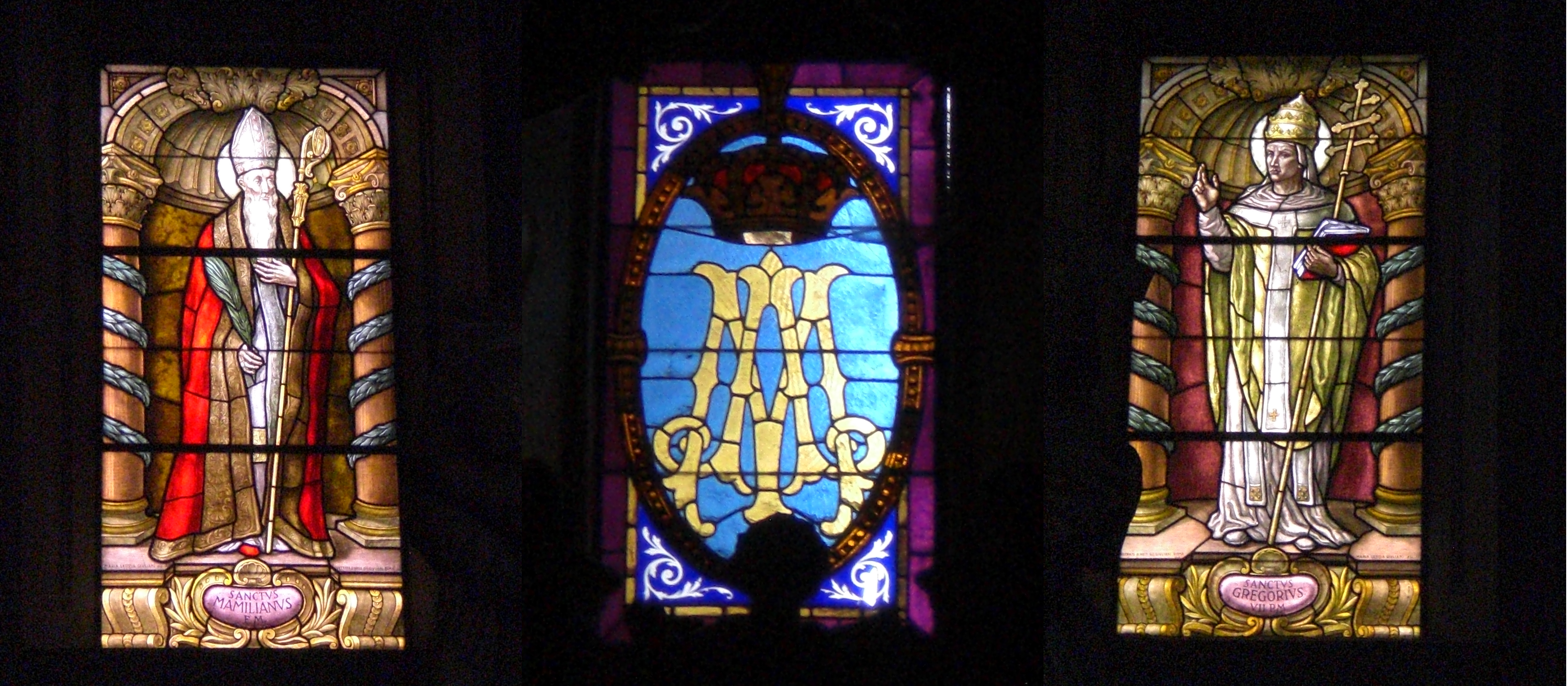 A collage of church-windows found in the "Duomo" of Pitigliano